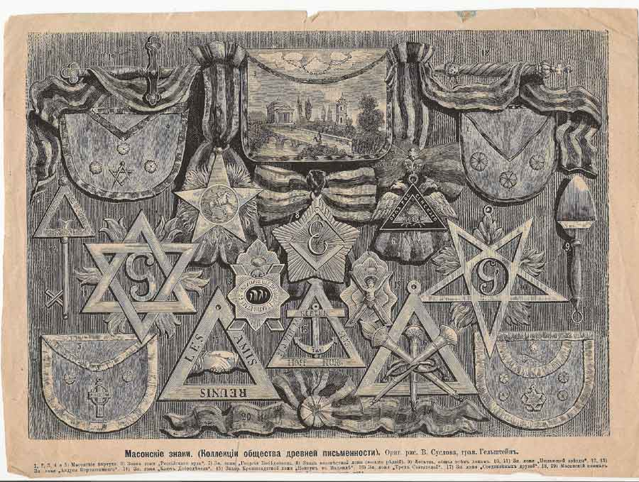 Мasonic symbols